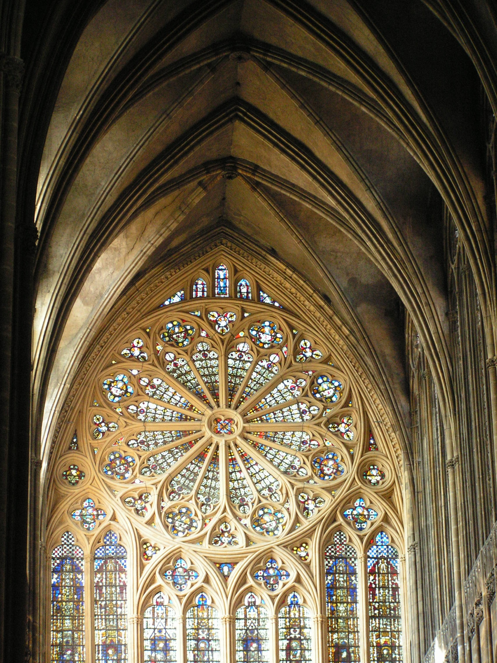 The St. Stephen's Cathedral of Metz (France)